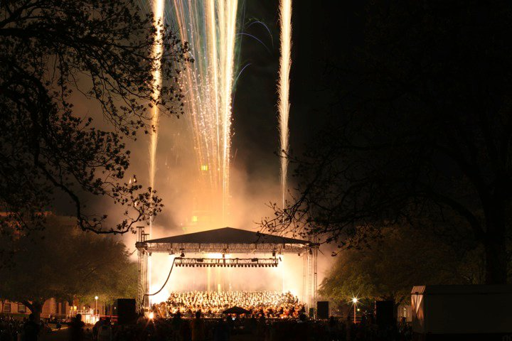 This is from the 1812 Overture performance on Fountain Mall.